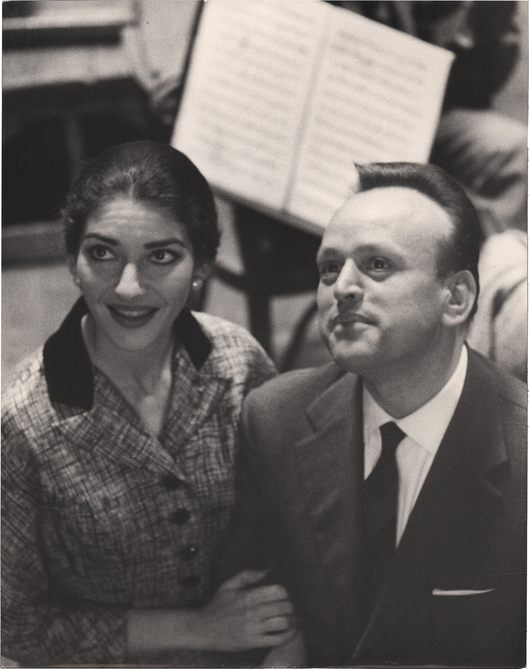 Portrait of Maria Callas, Mirto Picchi. Photo by Carlo Cisventi, Milano, 1957.